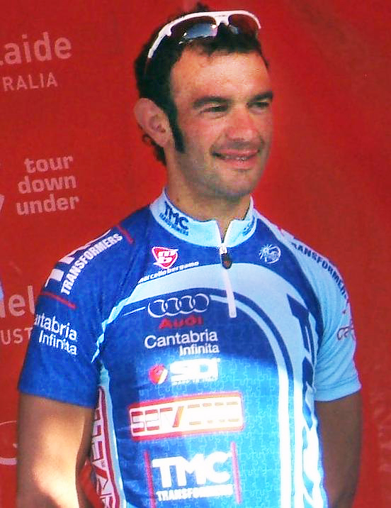 Named cyclist at the en:2009 Tour Down Under team presentation